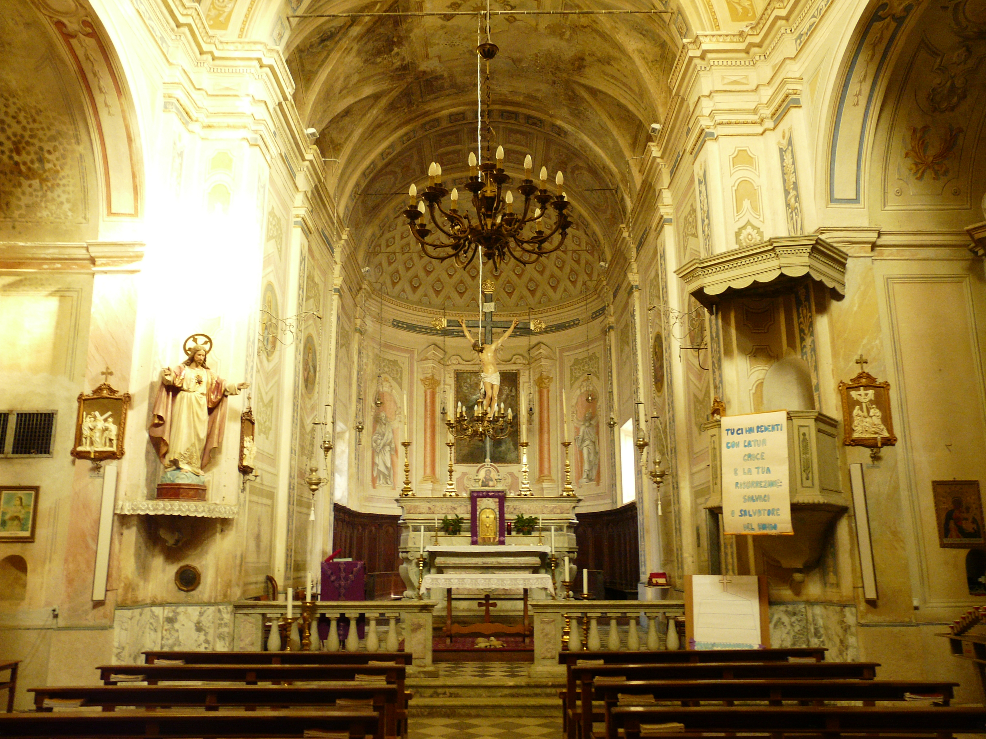 Church of the "Immaculate Conception" in Cosseria, Liguria (inner space)